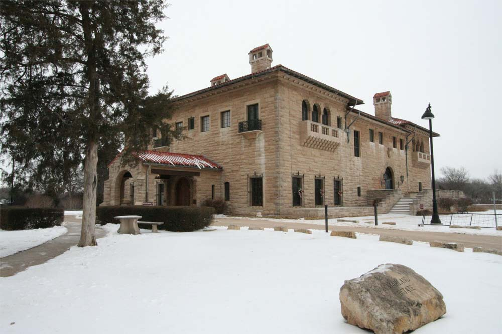 The Marland Mansion — in Ponca City, Oklahoma. Home of E.W. Marland, future governor of Oklahoma, it was built in 1925 and has been declared a National Historic Landmark.